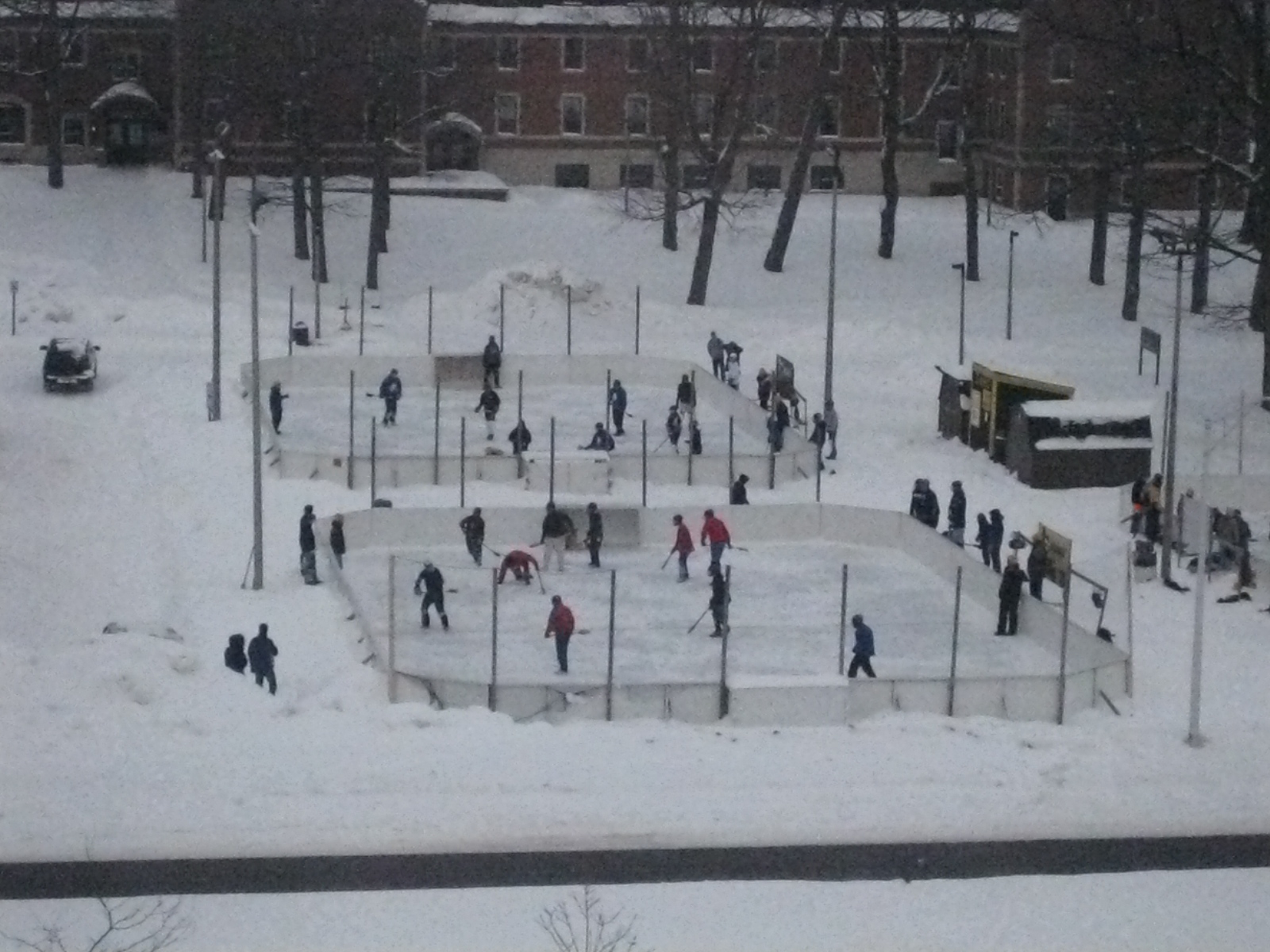 A good view of Michigan Tech's broomball rinks